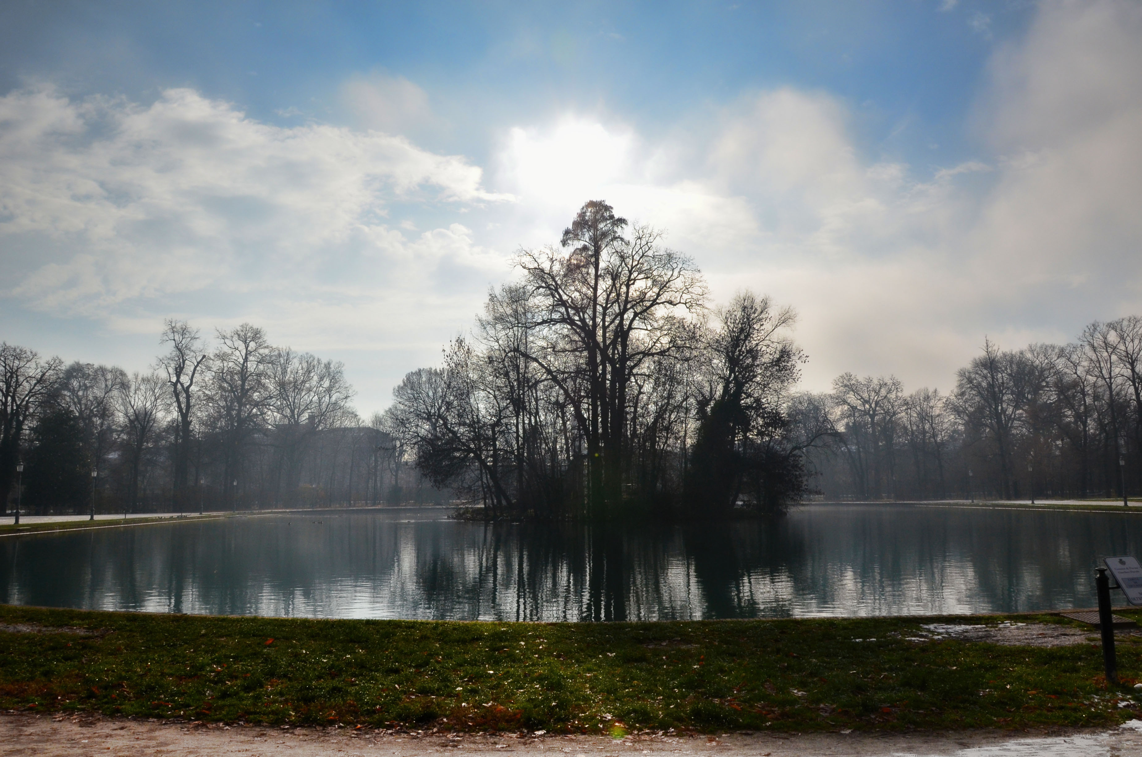 Parco Ducale in Parma This is a photo of a monument which is part of cultural heritage of Italy.